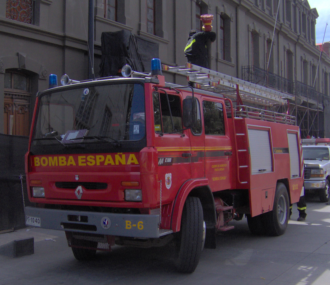 "Spanish Pump" Renault Camiva firefighting truck, Punta Arenas, Chile.